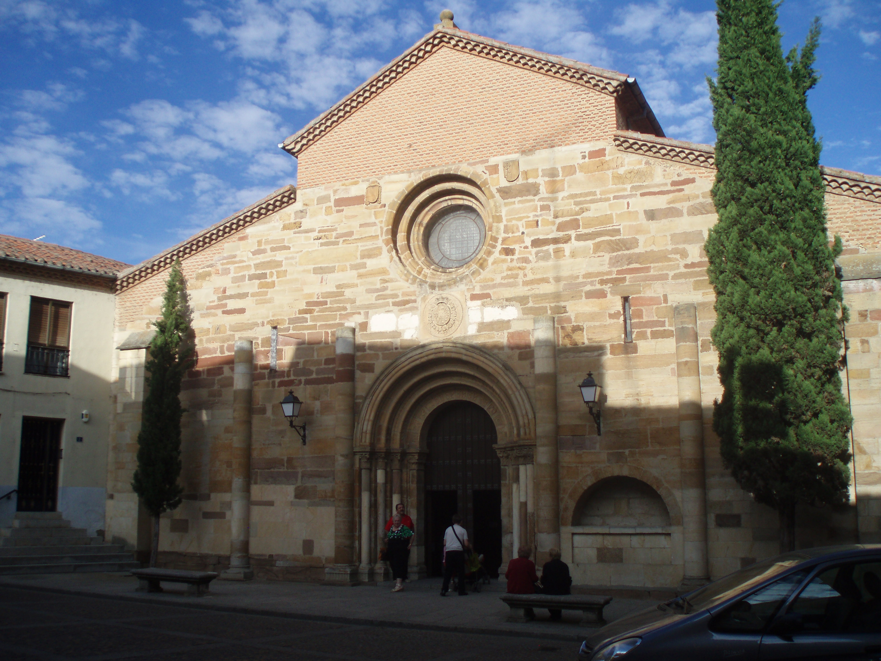 Church of San Juan del Mercado in Benavente.